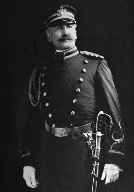 George W. Read, commander of the US II Corps in WW I.